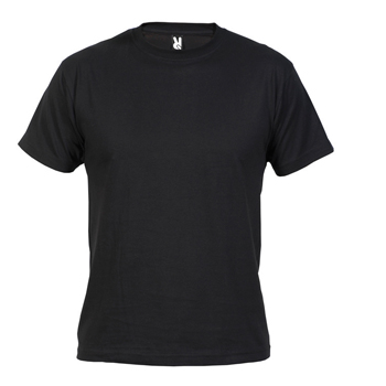 Black t-shirt